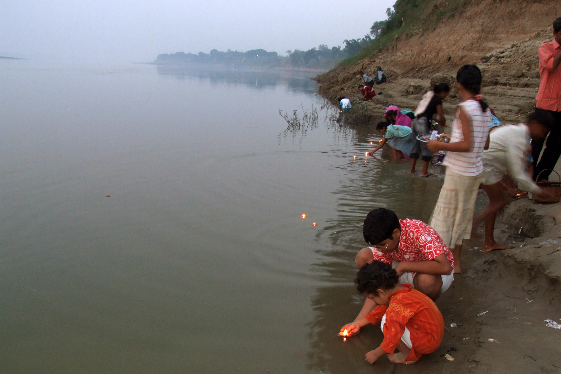 On diwali earthen lamps are set afloat in ganges